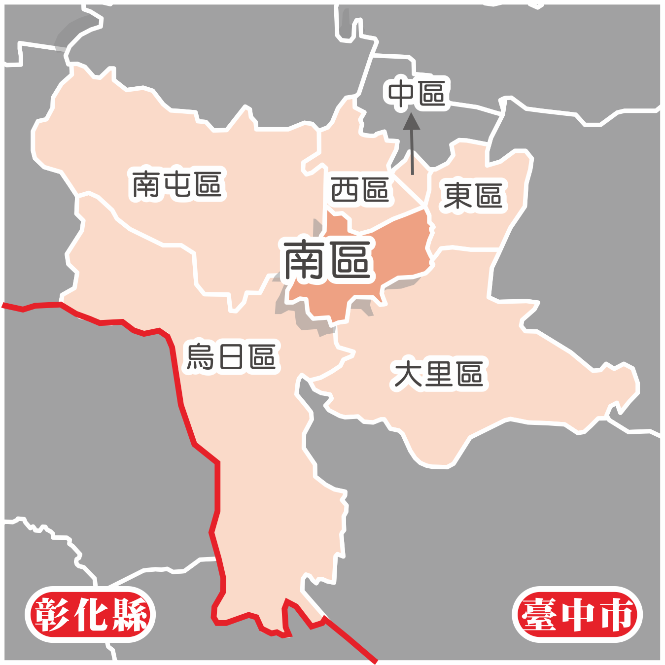 Nan District